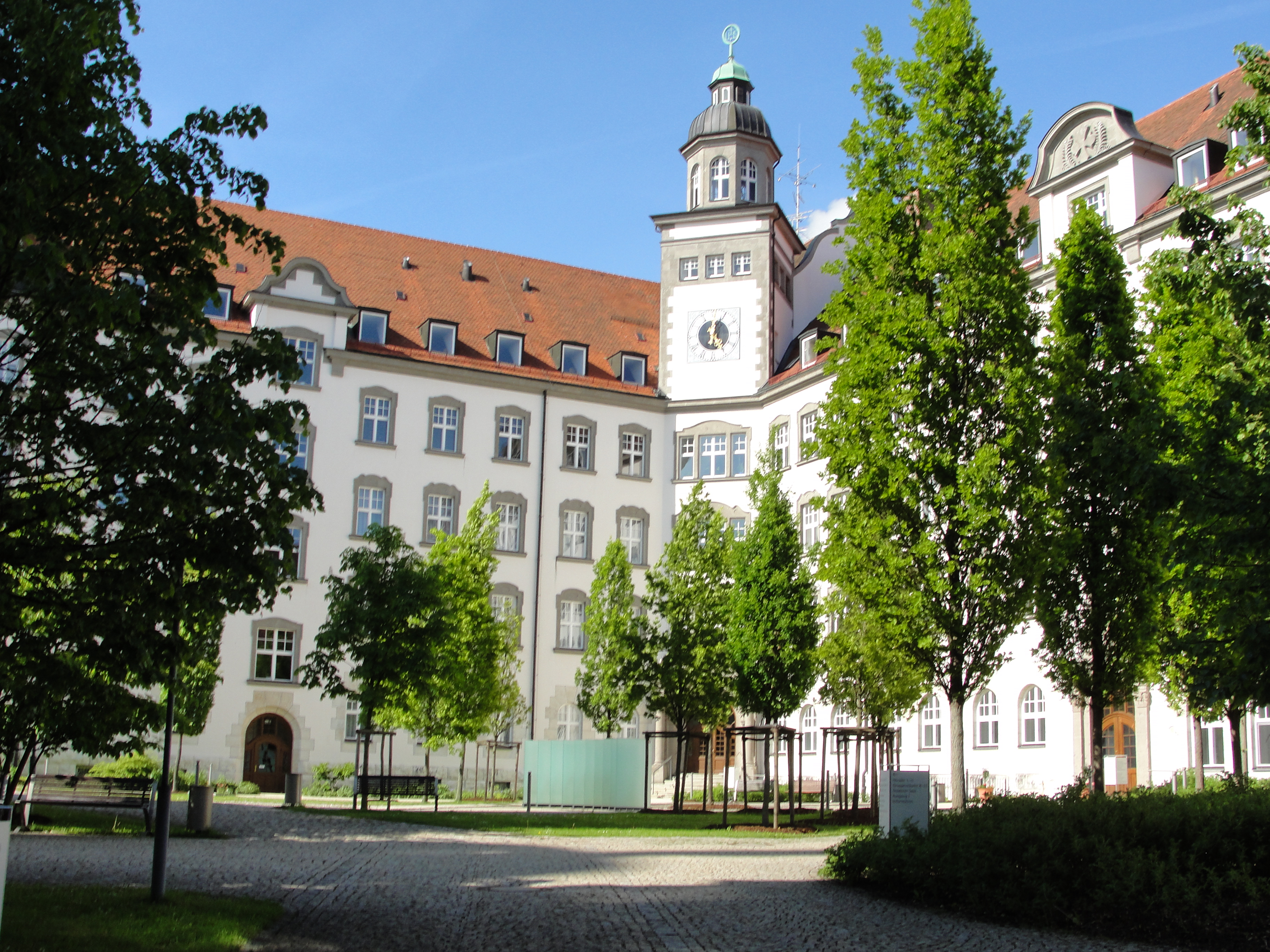 The residential wing of the College